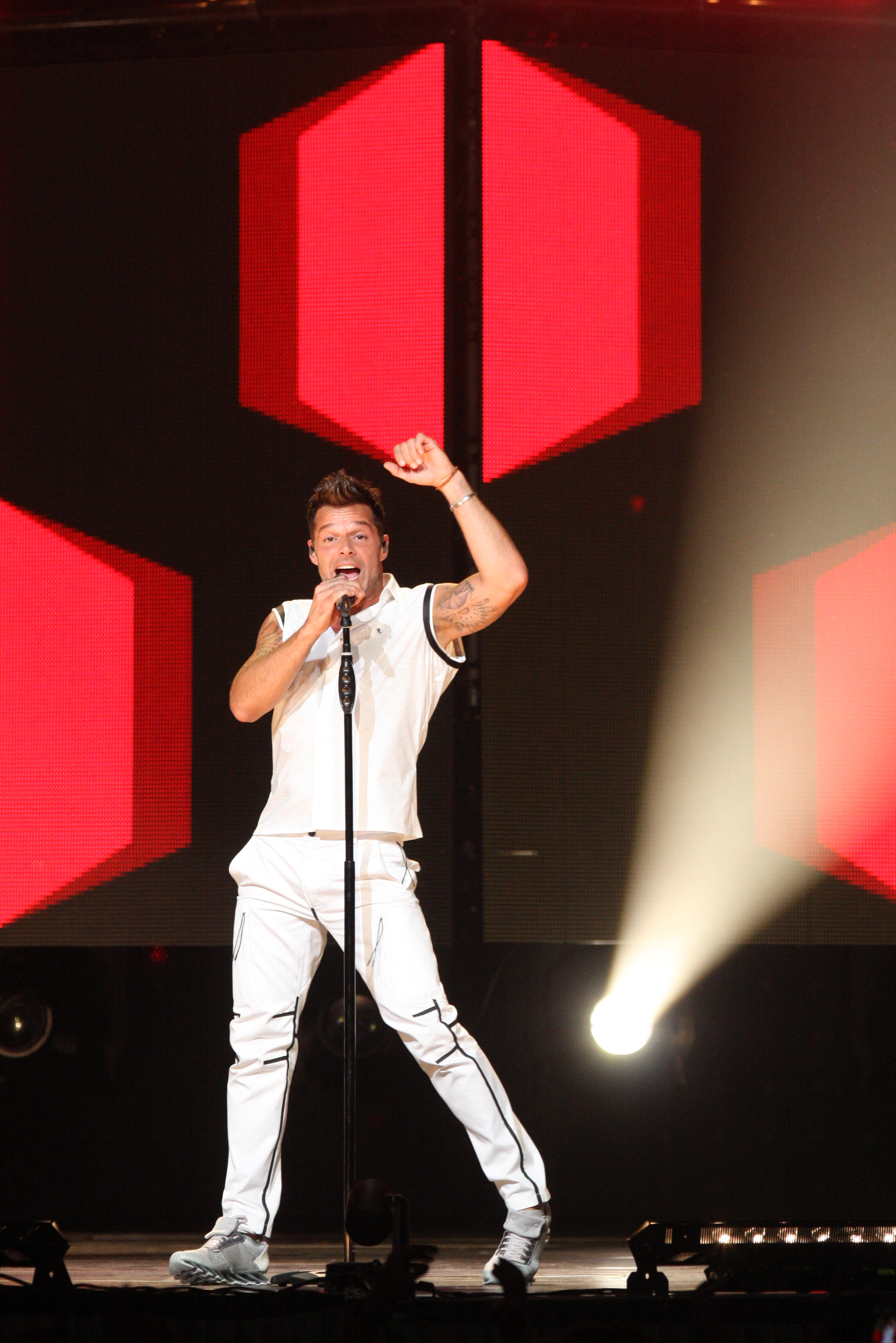 Ricky Martin @AllPhones Arena Sydney Australia